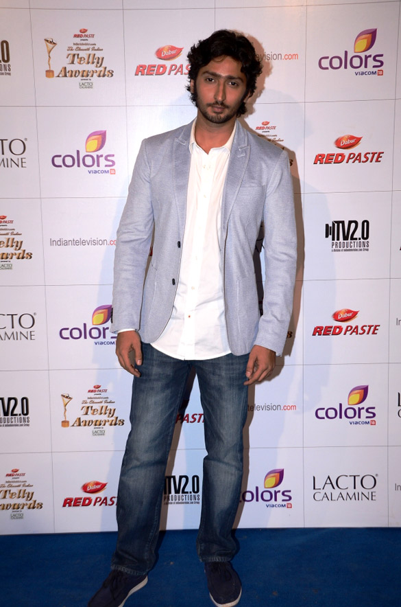 colors indian telly awards